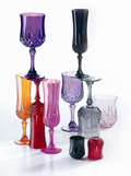 Collection-longchamp-folies.jpg